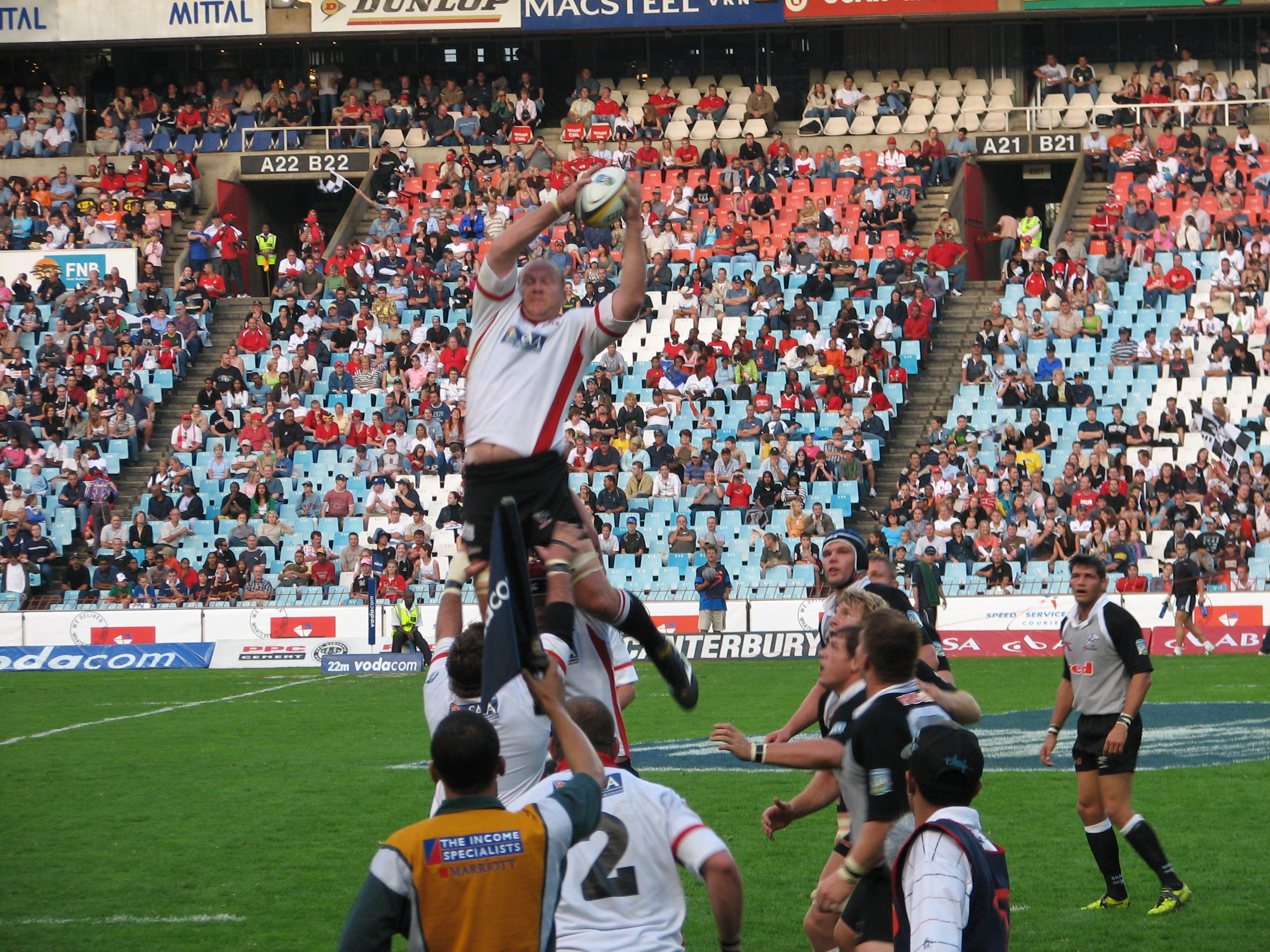 A photo of a line-out during a rugby union match at Ellispark stadium, South Africa between the Cats and Sharks on 15/04/2006